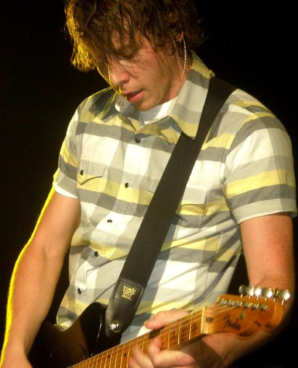 Danny Jones of McFly performing at the Shepherds Bush Empire.